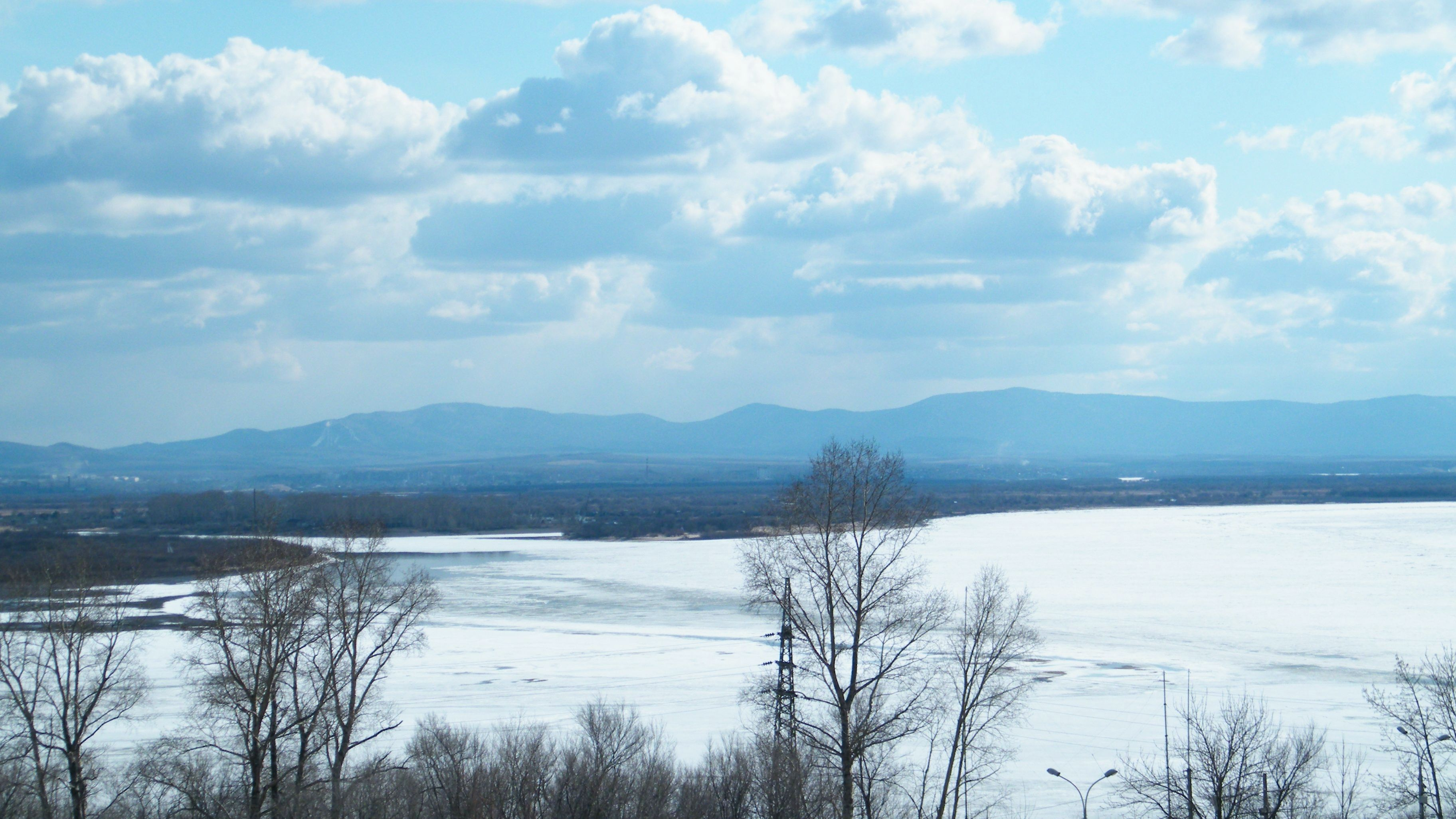 Amurskaya protoka